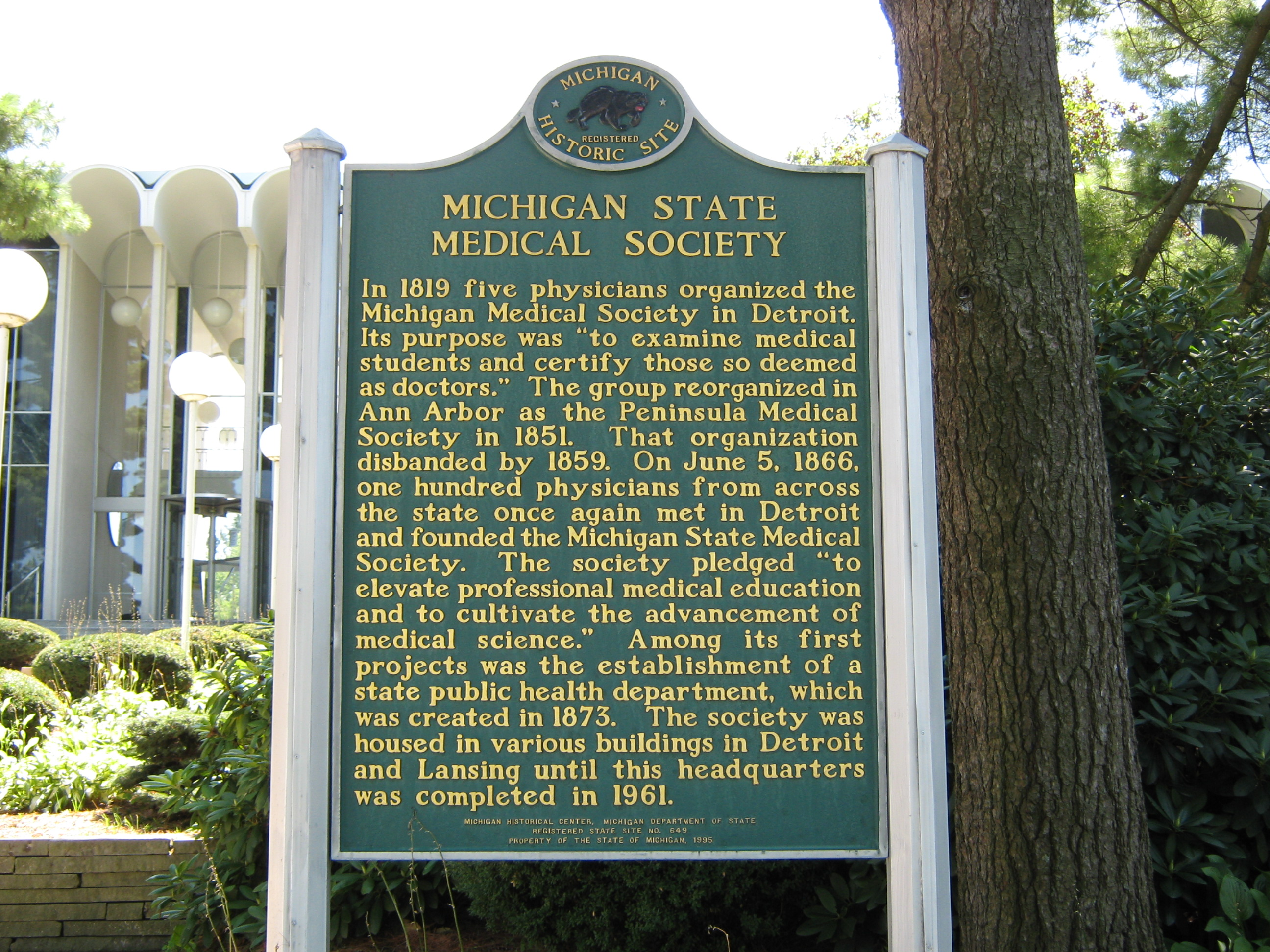 This historical marker is located on the grounds of the Michigan State Medical Society. The Michigan Historical Marker Program is administered by the Department of Natural Resources (DNR).